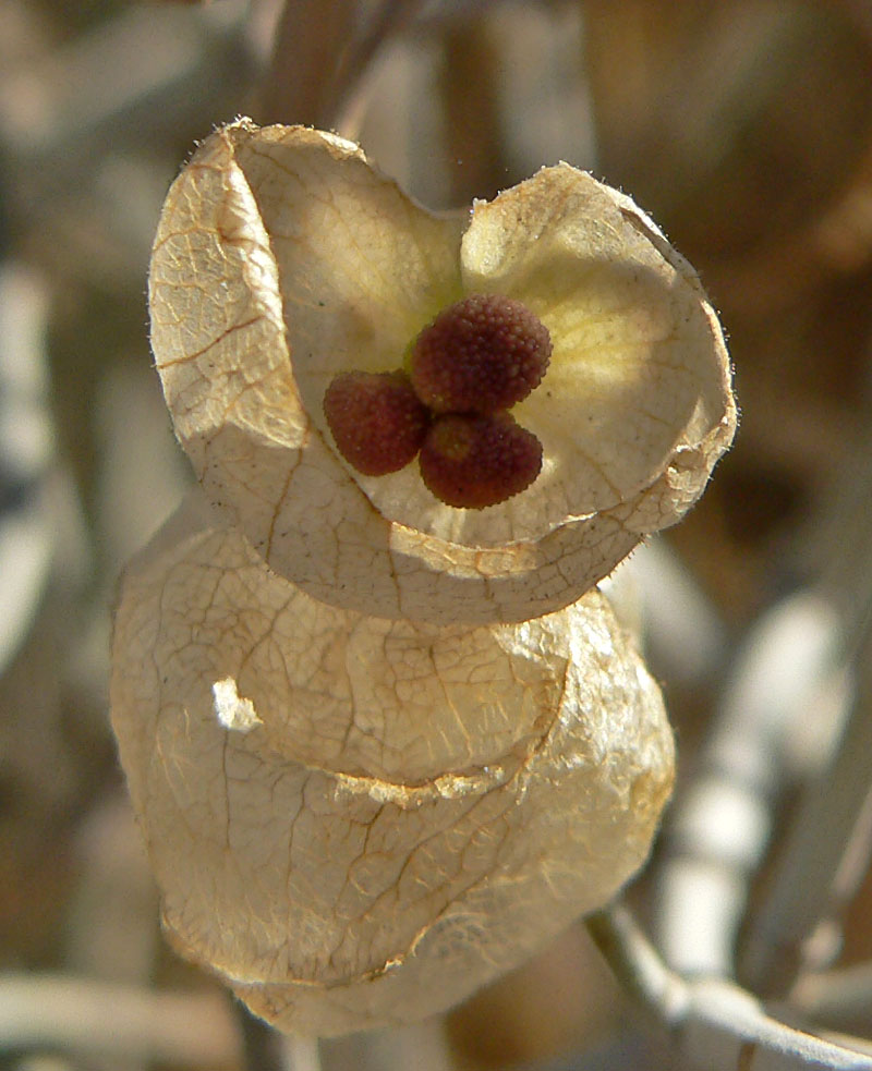 Salazaria mexicana with "bag" broken open and seeds visible, on Blue Diamond Hill, Red Rock Canyon, southern Nevada